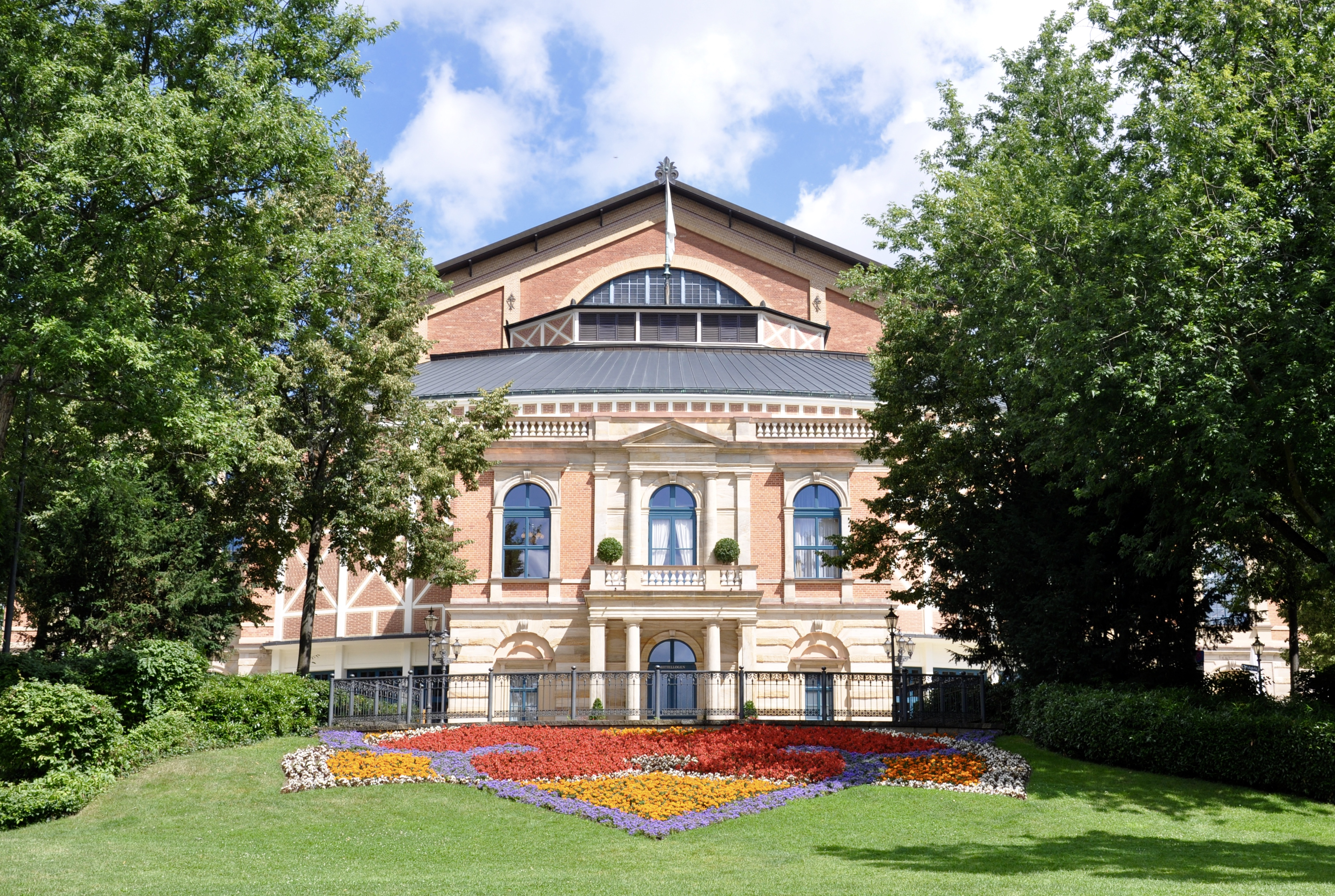 This is a photograph of an architectural monument.